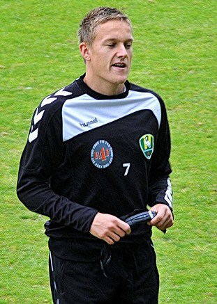 Jens Toornstra by ADO Den Haag.